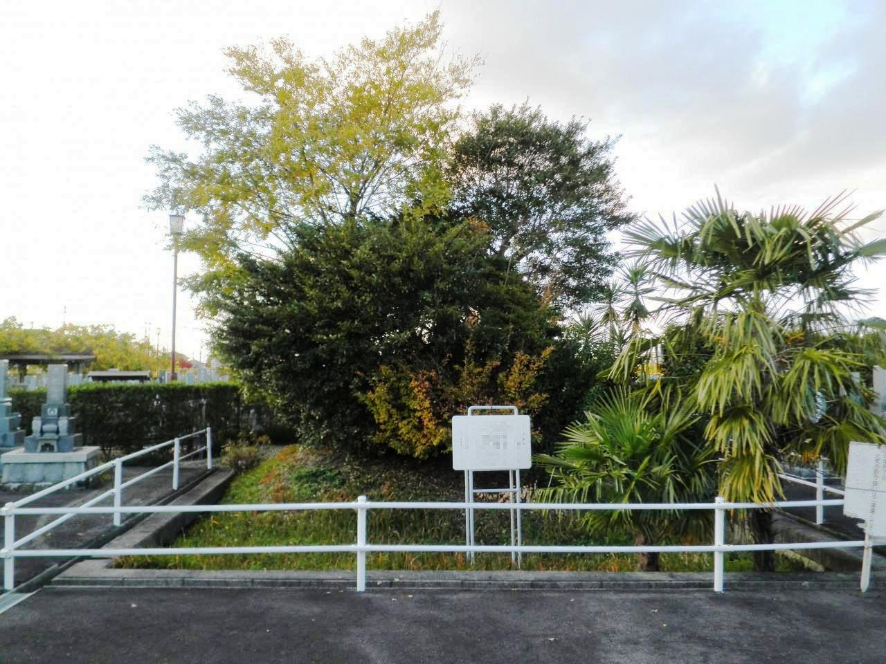 Tōjō-zuka where Matsudaira Yasutada killed in Anjō, Aichi.